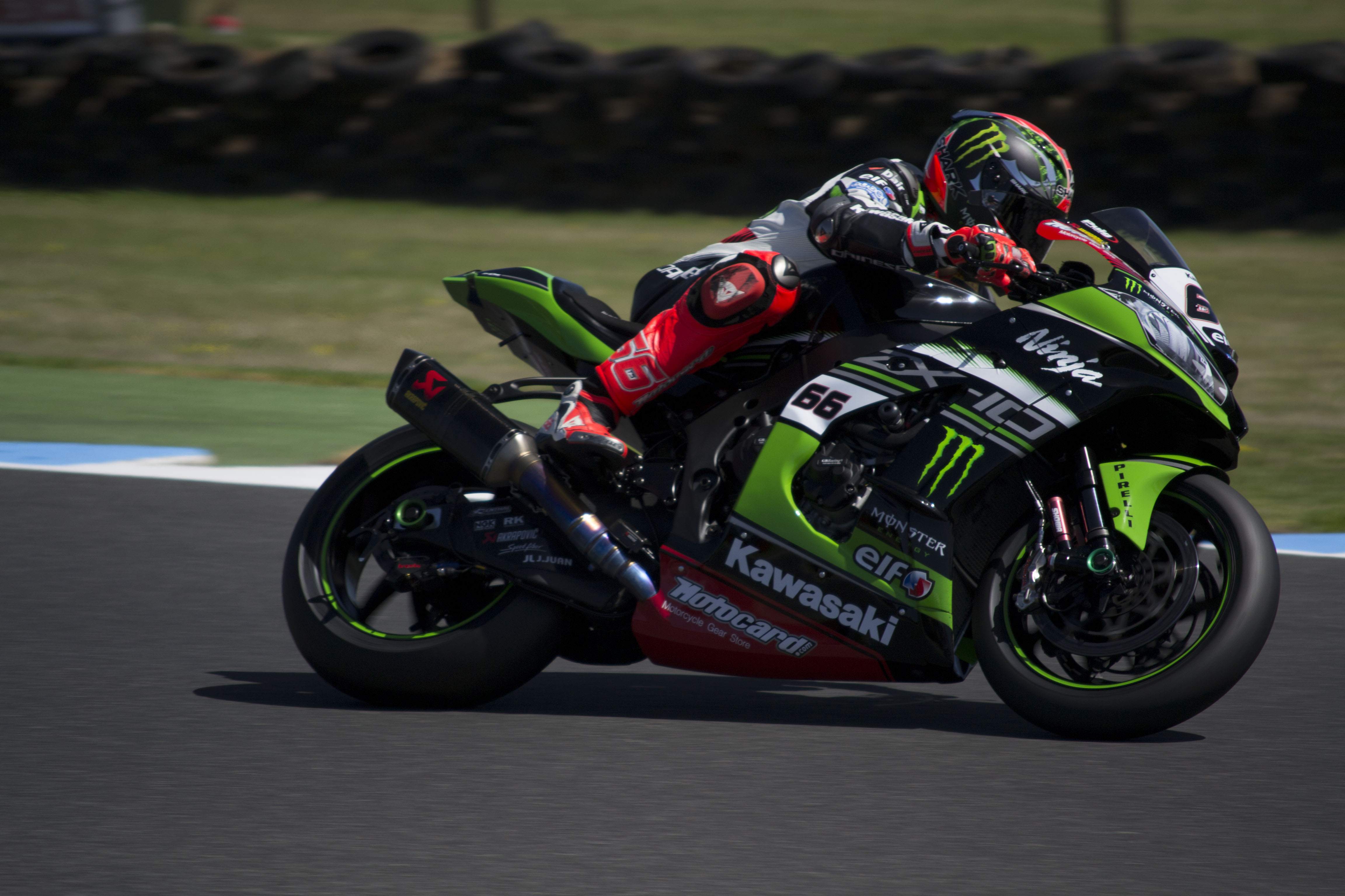 Tom Sykes on track during Superpole 2 at the Australian round of the 2017 World Superbike Championship